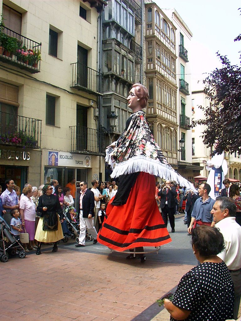 "Giants" in the local festivities, San Bernabé, of Logroño (Spain). The "gigantes y cabezudos" are a very popular tradition in many places of Spain, Portugal and South America. This one is dressed with the traditional costume of La Rioja (Spain).